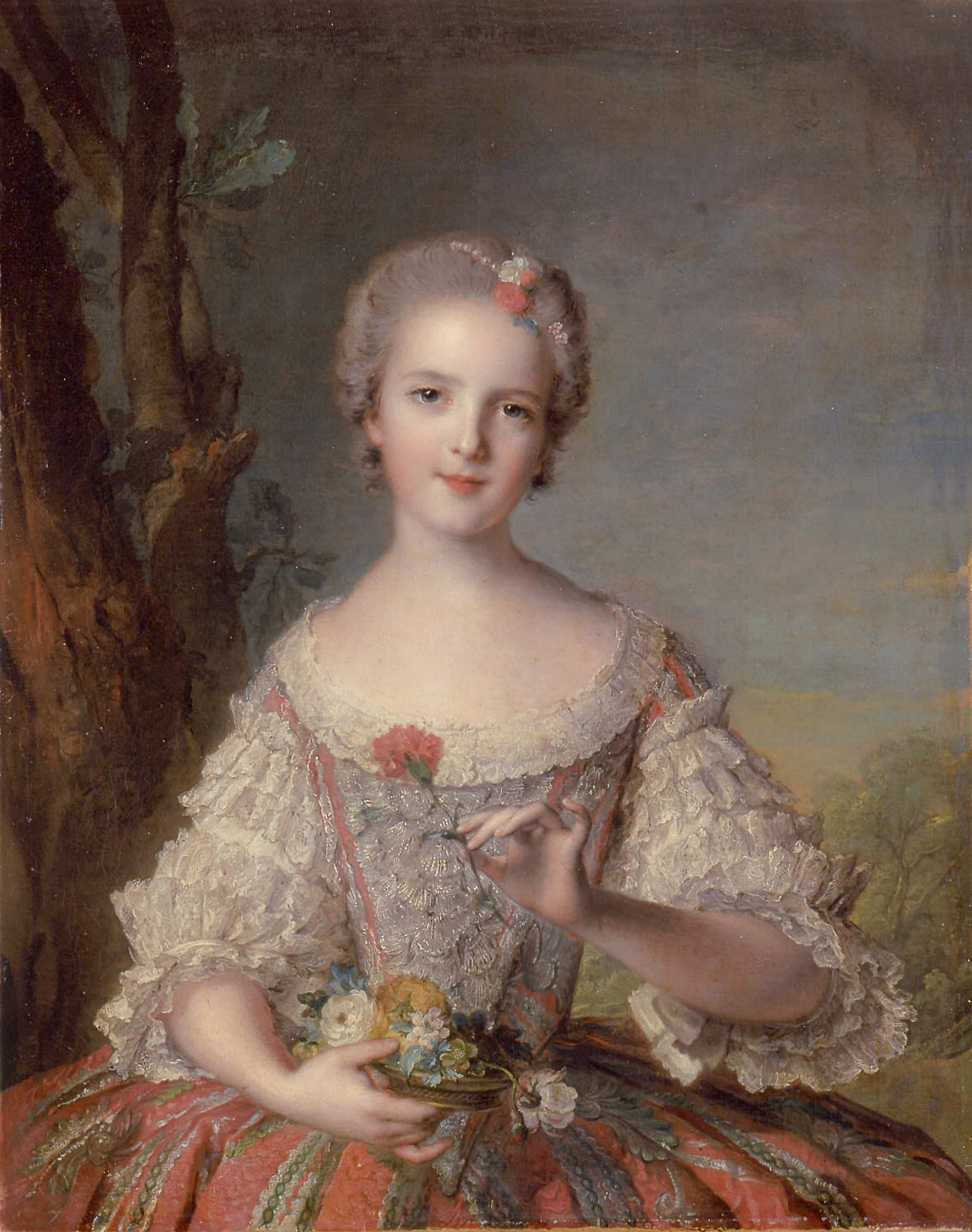 Louise-Marie of France (1737–1787), known as Madame Louise, daughter of Louis XV, in a court dress and holding a basket of flowers